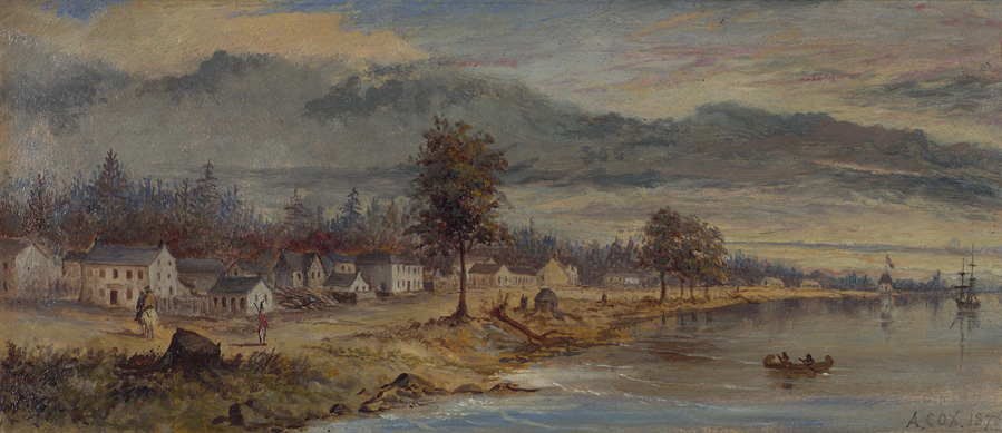 Town of York (now Toronto), looking east along Palace Street (now Front Street East), from today's Jarvis Street at left, to the town's blockhouse, with flag, at right. Arthur Cox painted this view of York from pencil sketches presumed to be based on a watercolour of York painted by Surgeon Edward Walsh in 1803. The Walsh painting is now in the William L. Clements Library, University of Michigan.